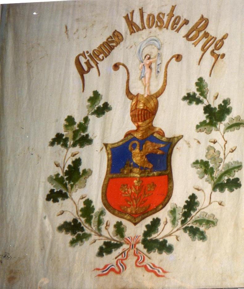 Cappelen coat of arms on banner from Skien